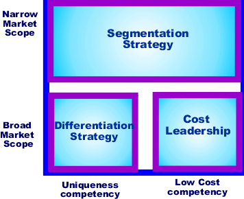 Porter Generic Strategies